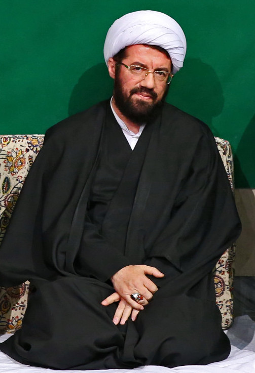 Masoud Aali in Imam Khomeini Hossainiah in October 2016